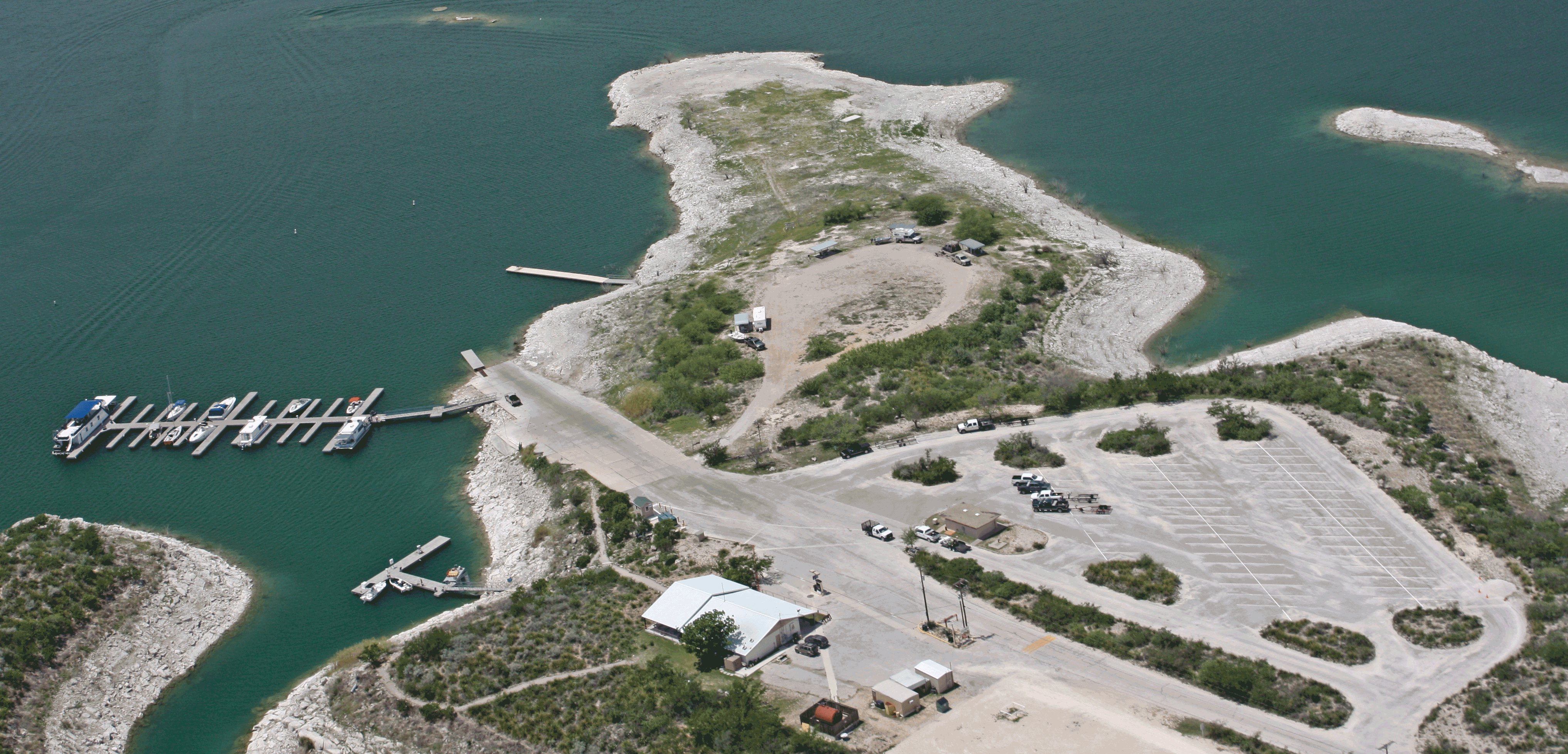 Aerial view of Rough Canyon Campground in 2012 during low water (NPS description).